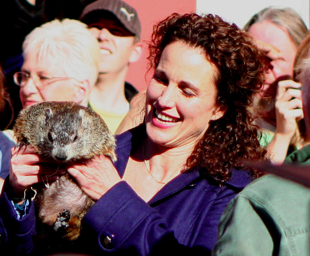 A media event! Andie MacDowell with Nibbles on Groundhog's Day 2008 Camera: Canon EOS Digital Rebel XT License on Flickr (2011-02-02): CC-BY-SA-2.0 Flickr tags: Andie MacDowell, Groundhog's Day, groundhog, Asheville